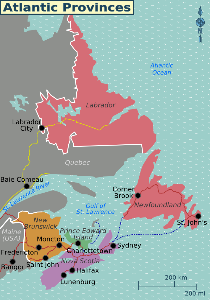 Map of Canada's Atlantic Provinces (Wikivoyage regional scheme), English version